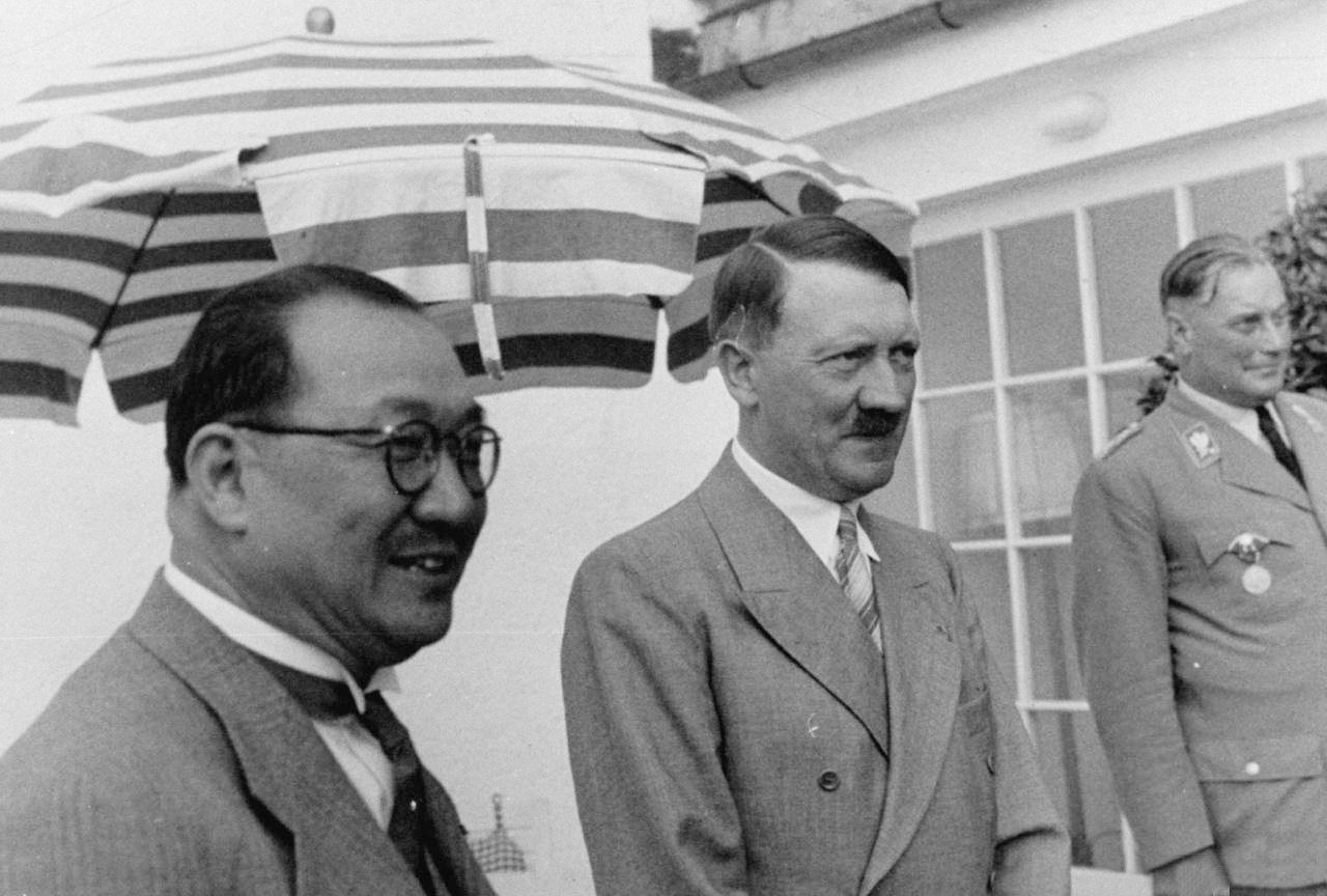 Mr. Kung Hsiang-hsi met with Hitler of Nazi Germany in 1936